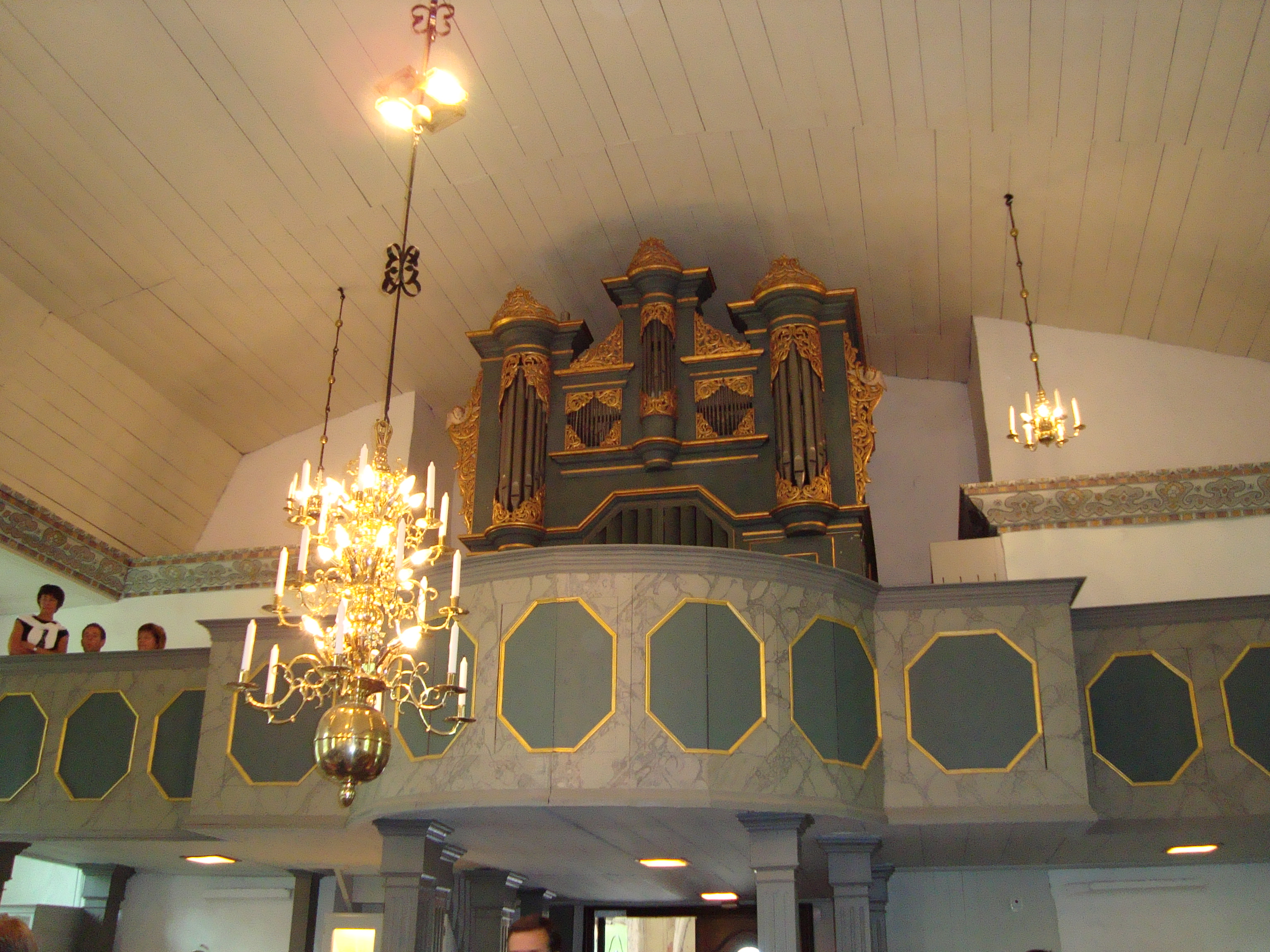 Loft, Landeryds kyrka, Diocese of Linköping, Sweden